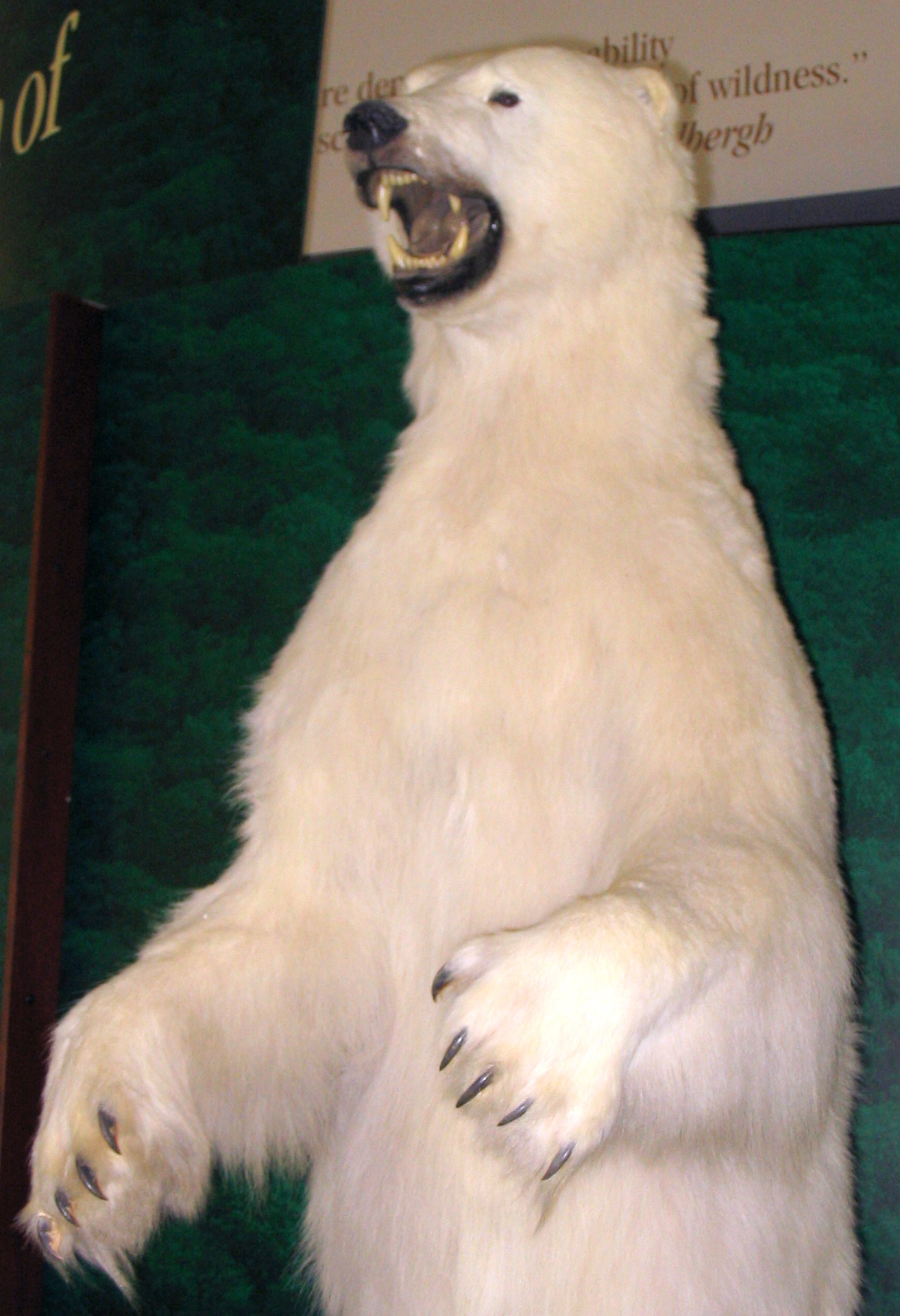 Taxidermied polar bear on display at the Patuxent Wildlife Research Center.